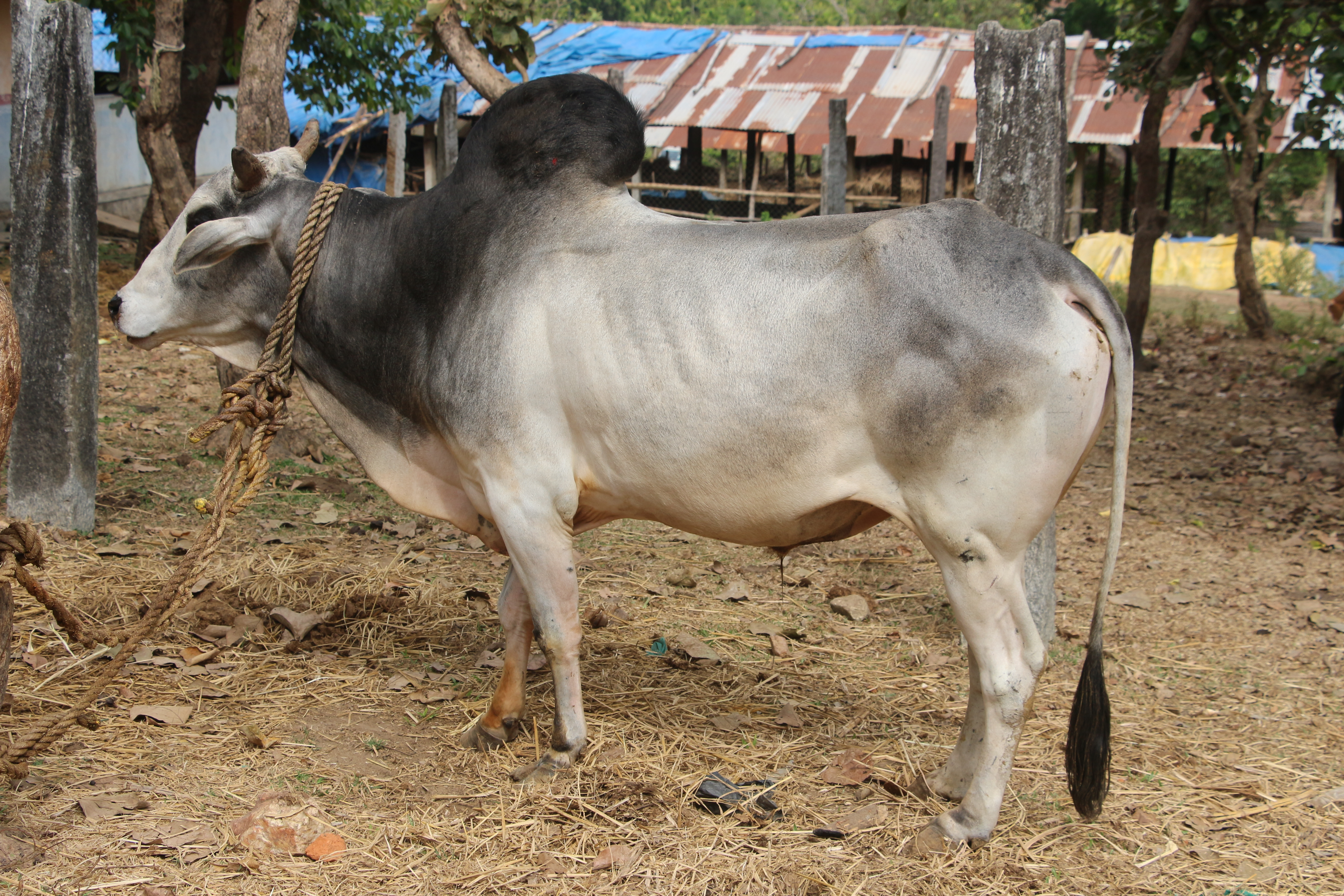 Indian cow breed Nagoriಕನ್ನಡ: ಭಾರತೀಯ ಗೋತಳಿ ನಾಗೋರಿ